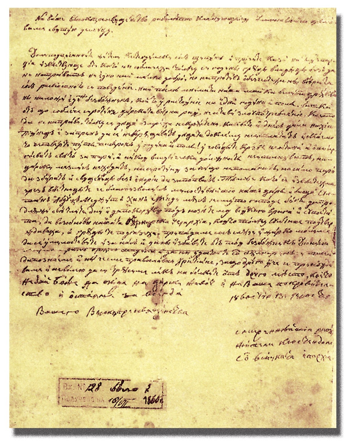 A letter of protest from the people of Shtip against the Greek Bishop, with a request for "Bulgarian clergy" (1860) This media file is produced by Wikipedian in Residence in Category:Wikipedian in Residence at DARM in 2016.